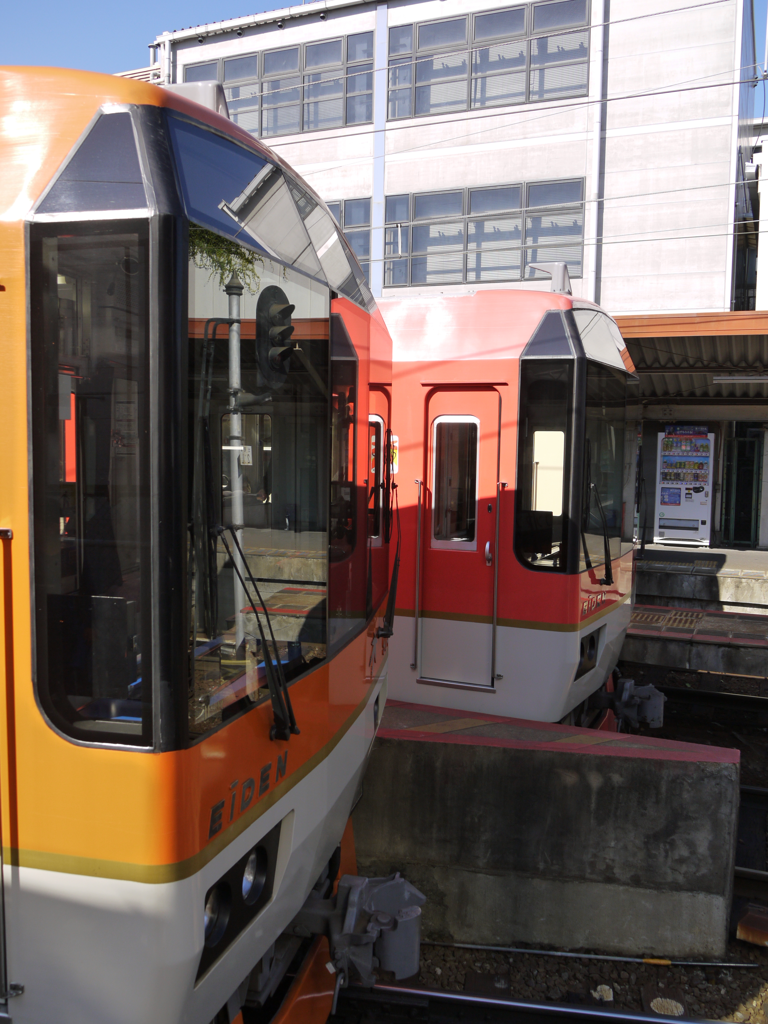 Two Eizan Electric Railway 900 series trains at Demachiyanagi station